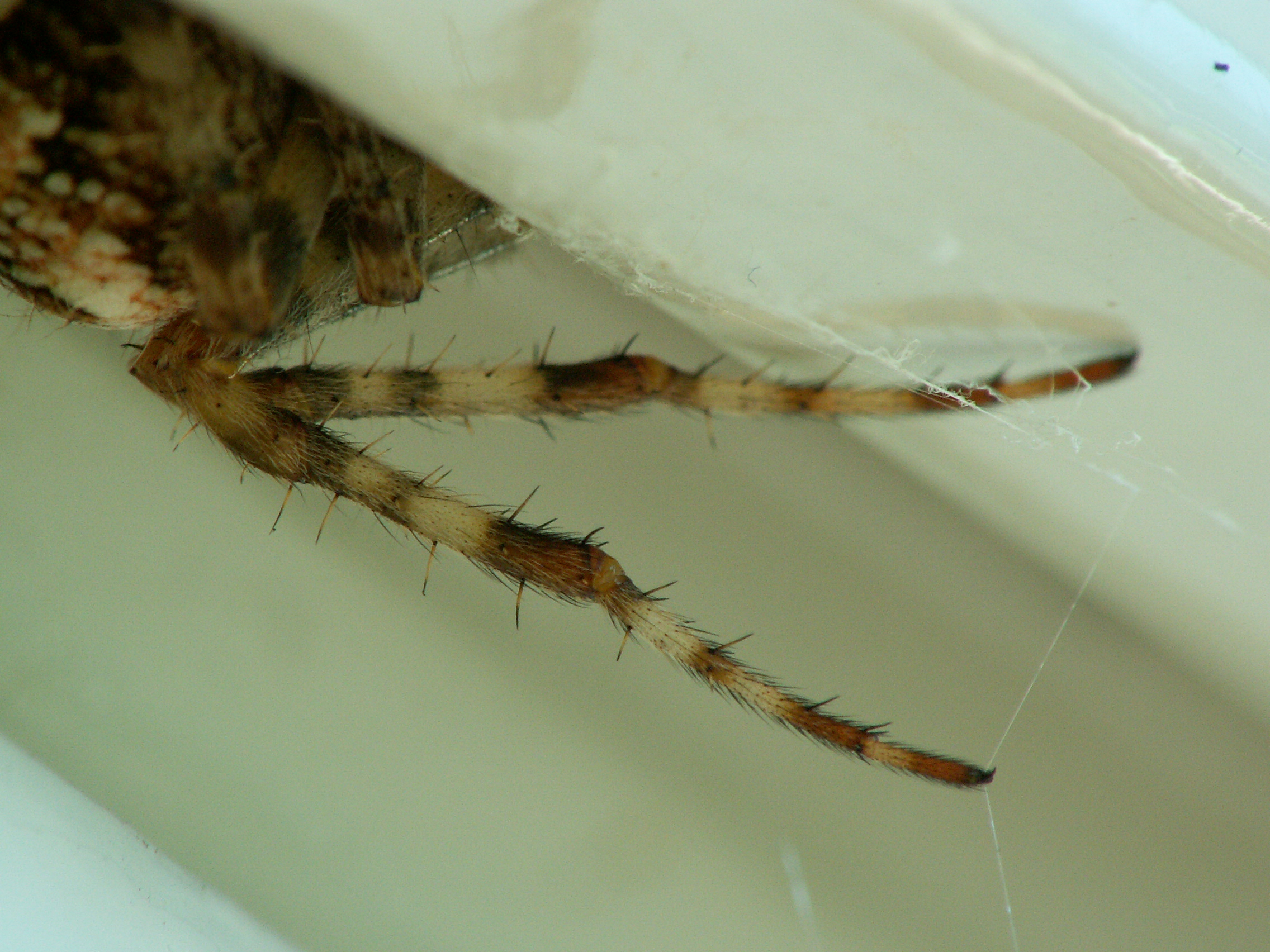 European garden spider in its hide out trying to sense vibrations of the web. Taken at home in Wageningen, the Netherlands